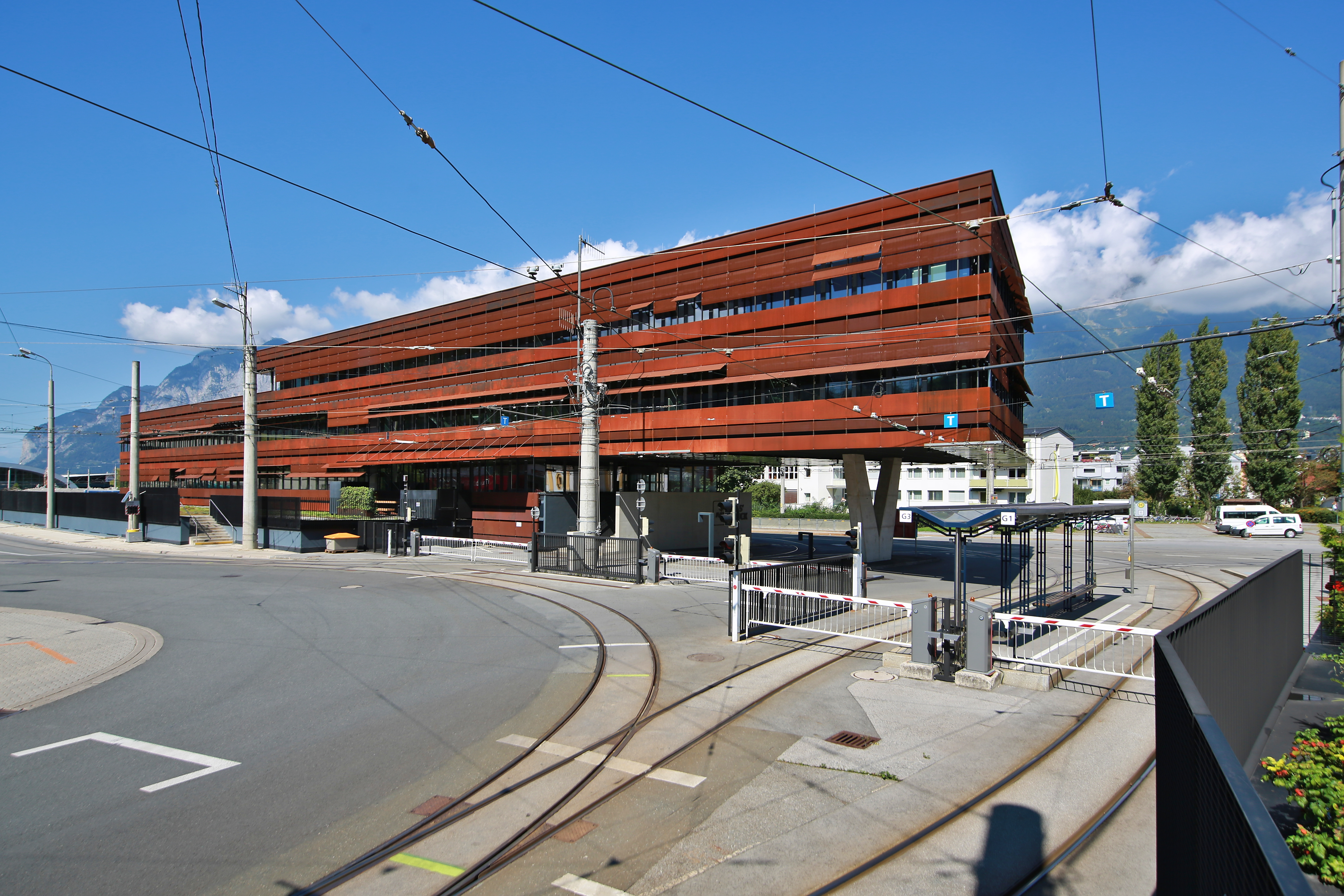 Innsbrucker Verkehrsbetriebe